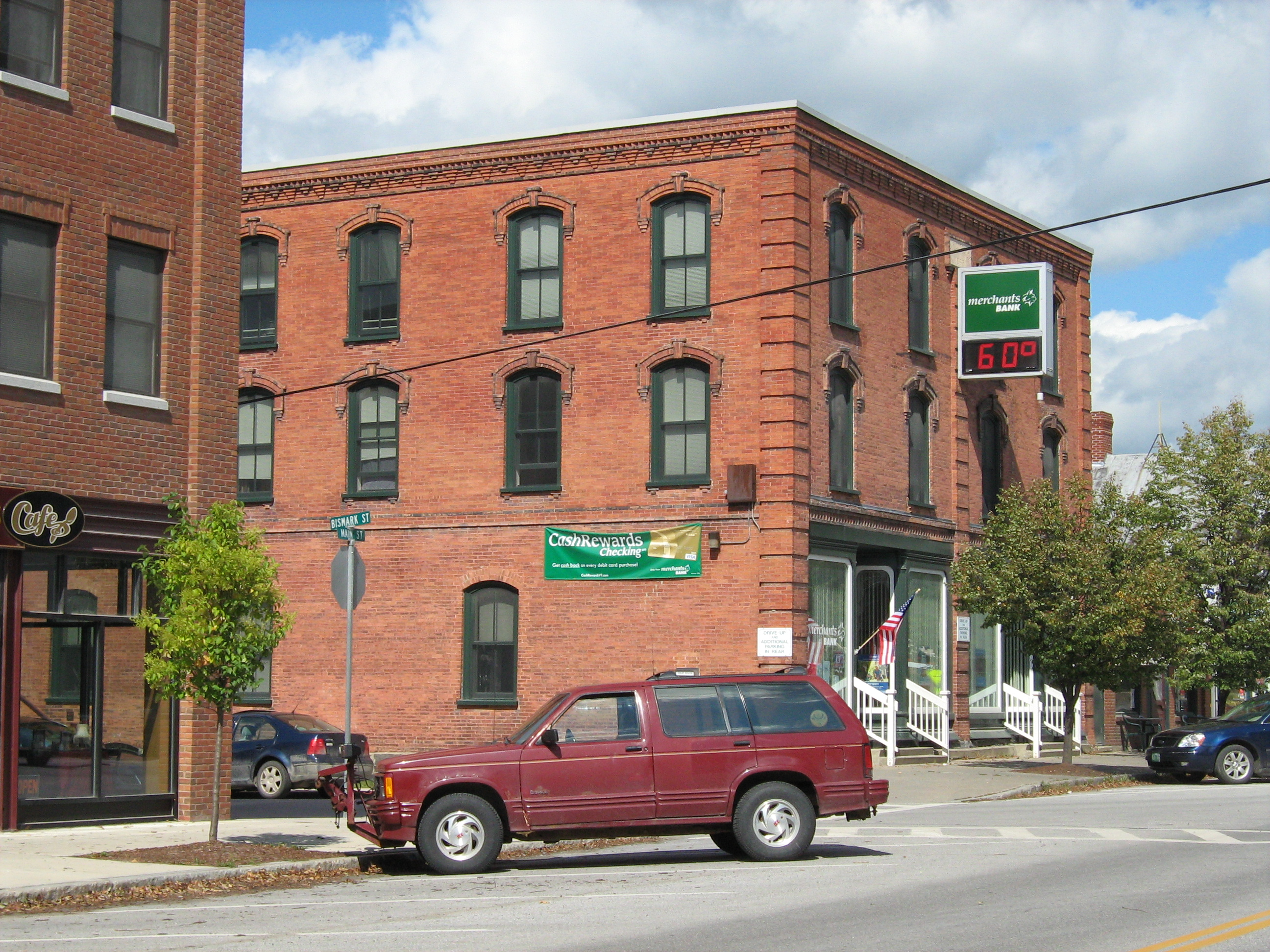 The Billado Block in Enosburg Falls, Vermont. Retail space (presently a bank) on the ground floor, apartments above.